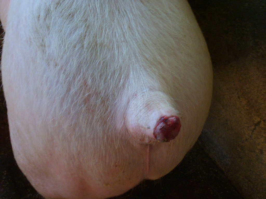 A pig whose tail is been bited.